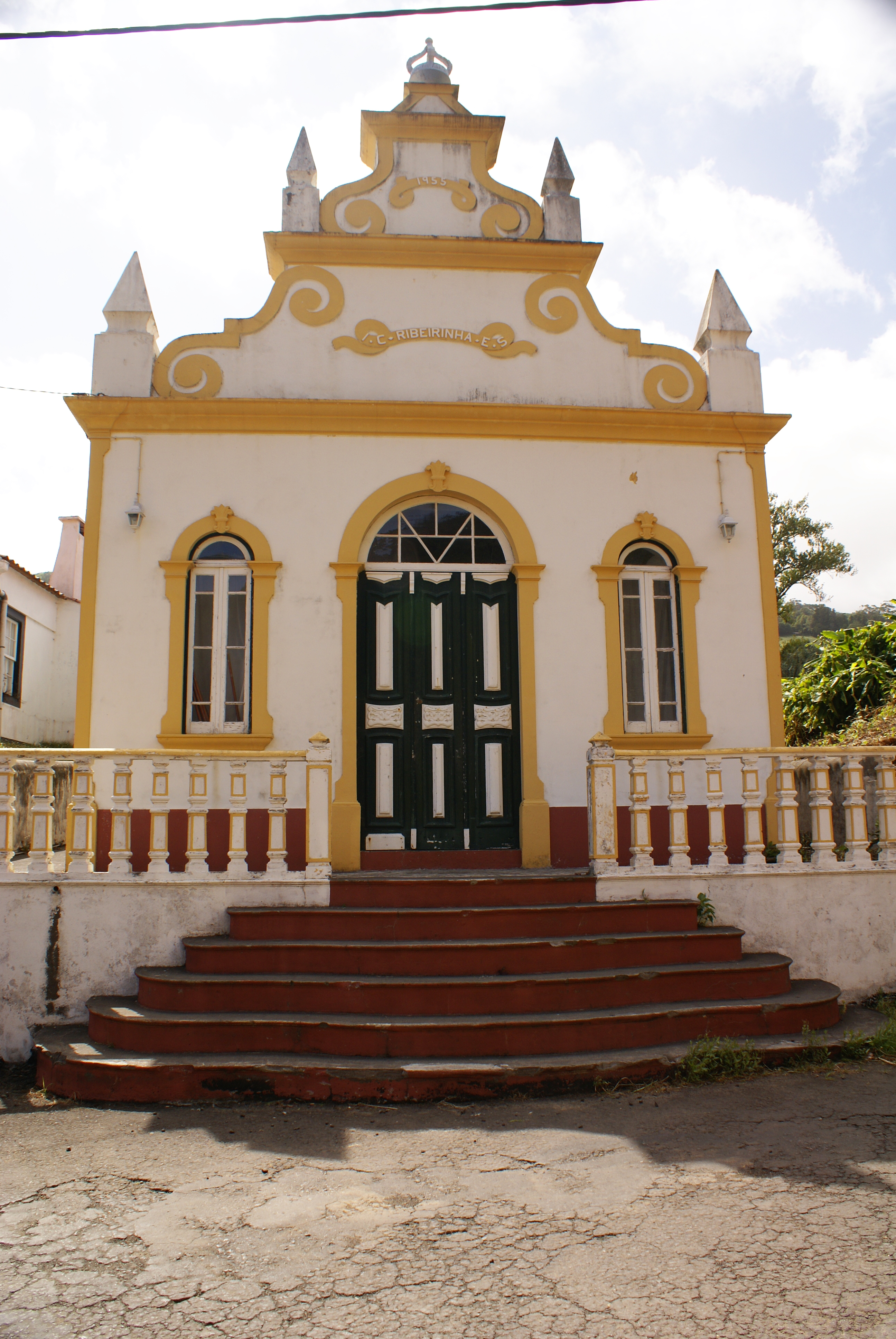 Império do Divino Espírito Santo da Ribeirinha, Ribeirinha, concelho da Horta, ilha do Faial, Açores, Portugal